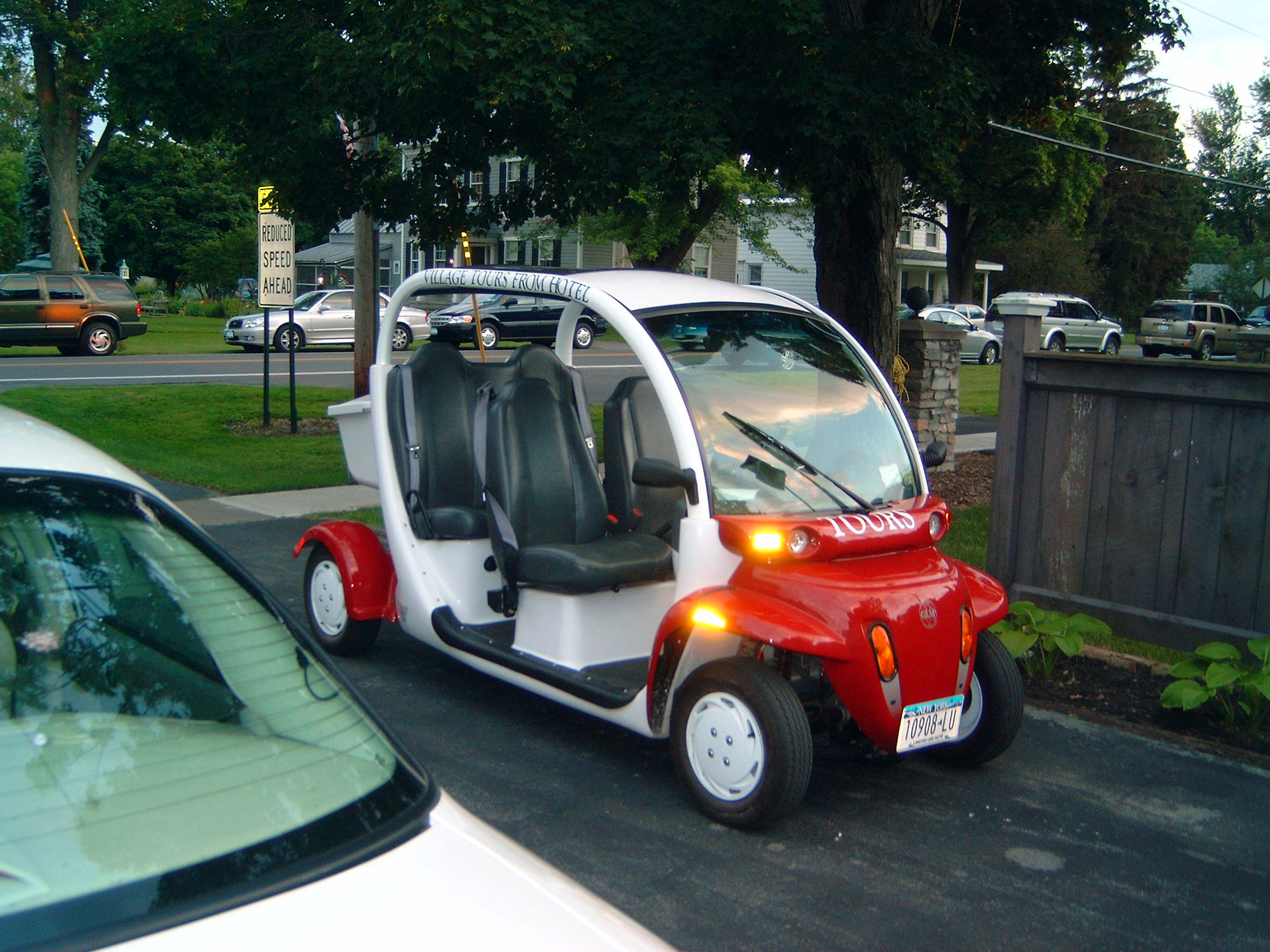 A picture, taken by myself, of an e4 NEV produced by Global Electric Motorcars.